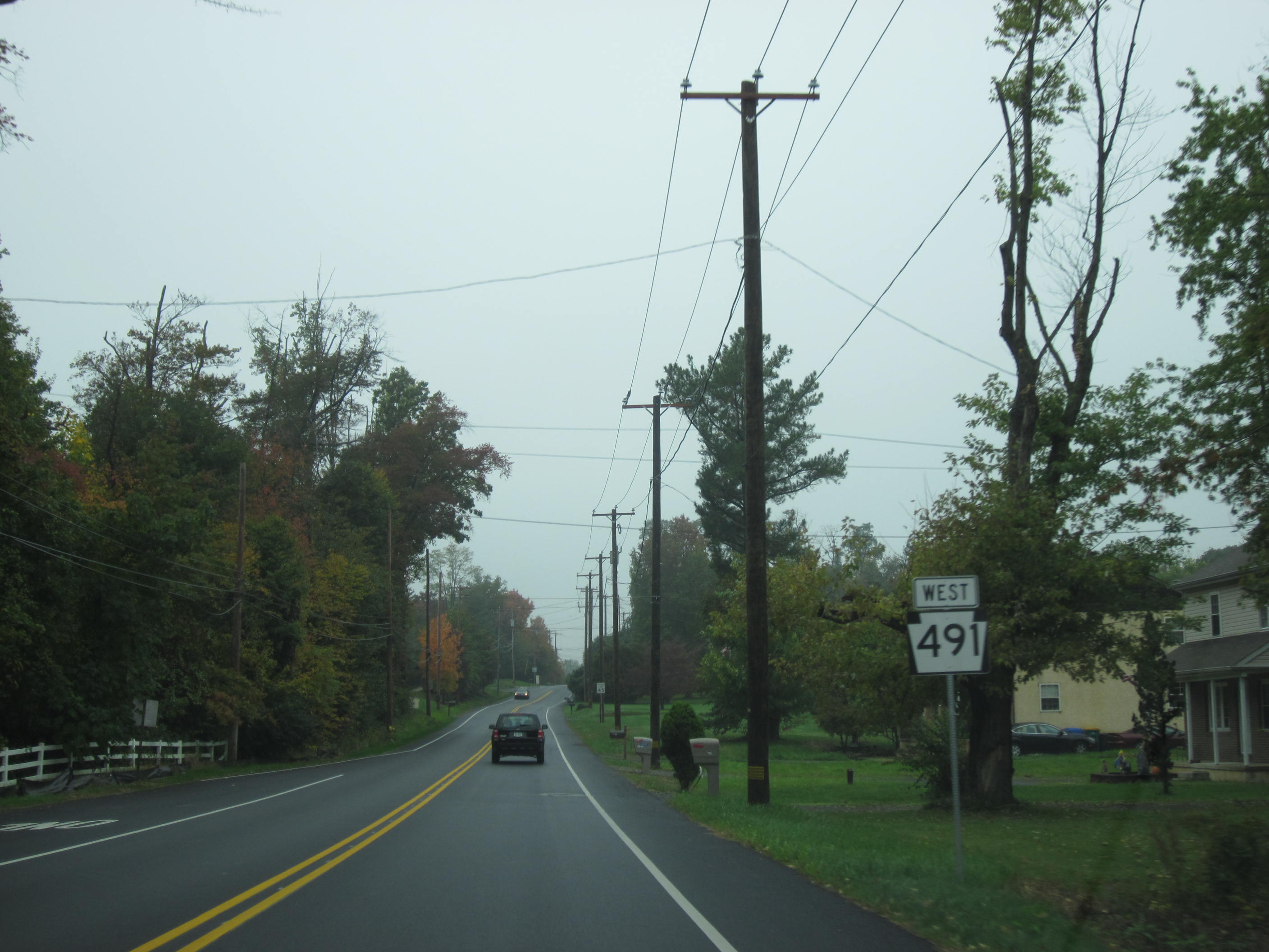 Pennsylvania State Route 491 westbound past Shavertown Road in Concord Township